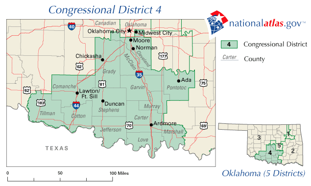 Oklahoma District 4. Image adapted from US fed gov't source